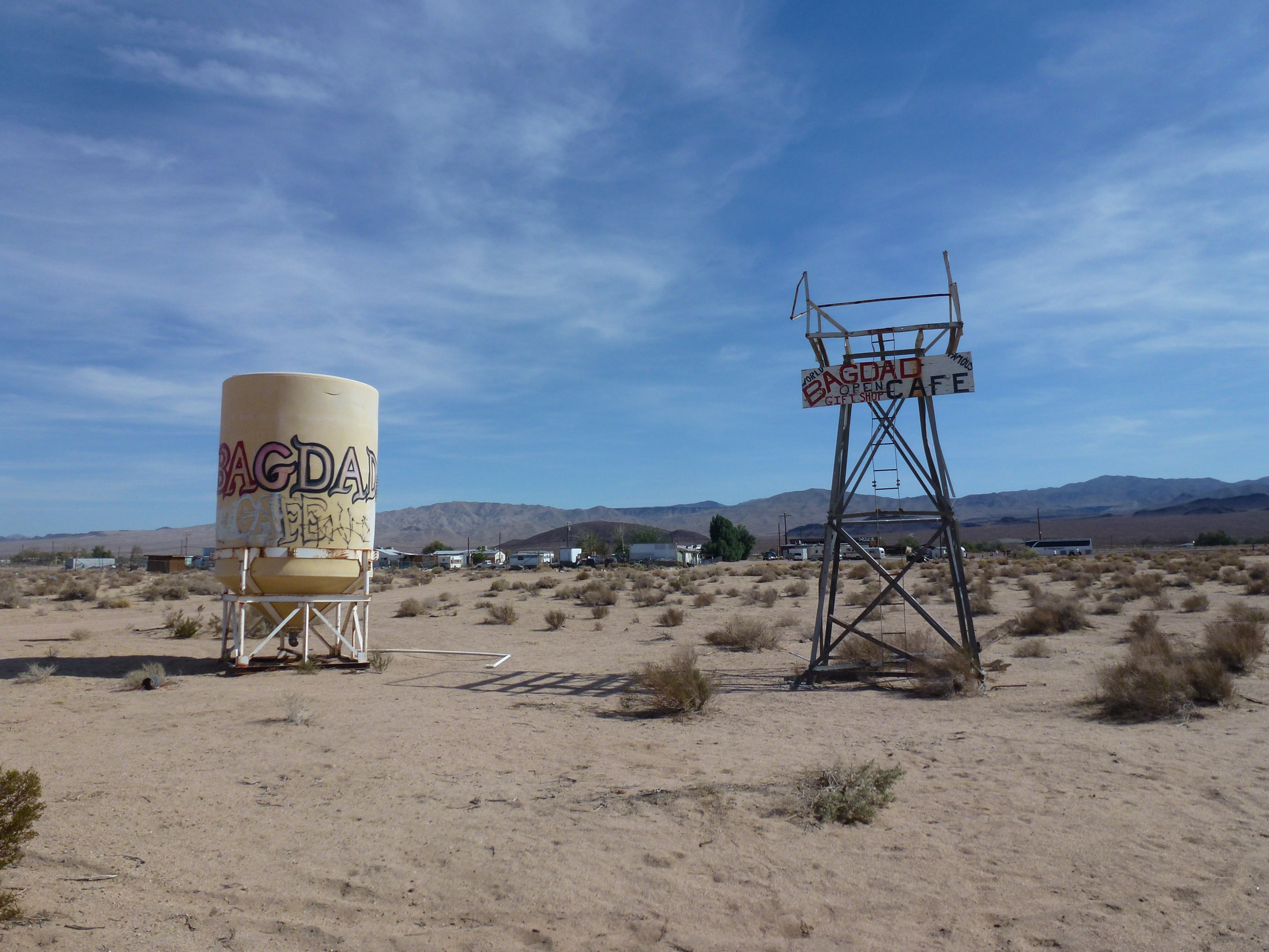 Bagdad Café at Newberry Springs, Mojave Desert, California. Originally established as Sidewinder Café, the restaurant changed its name after the motion picture Bagdad Café was filmed here.